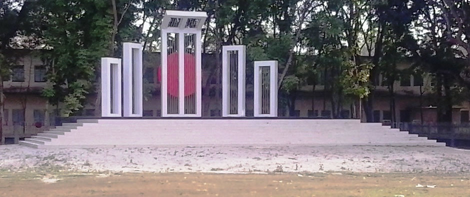 Shahid Minar, Carmichel College, Rangpur